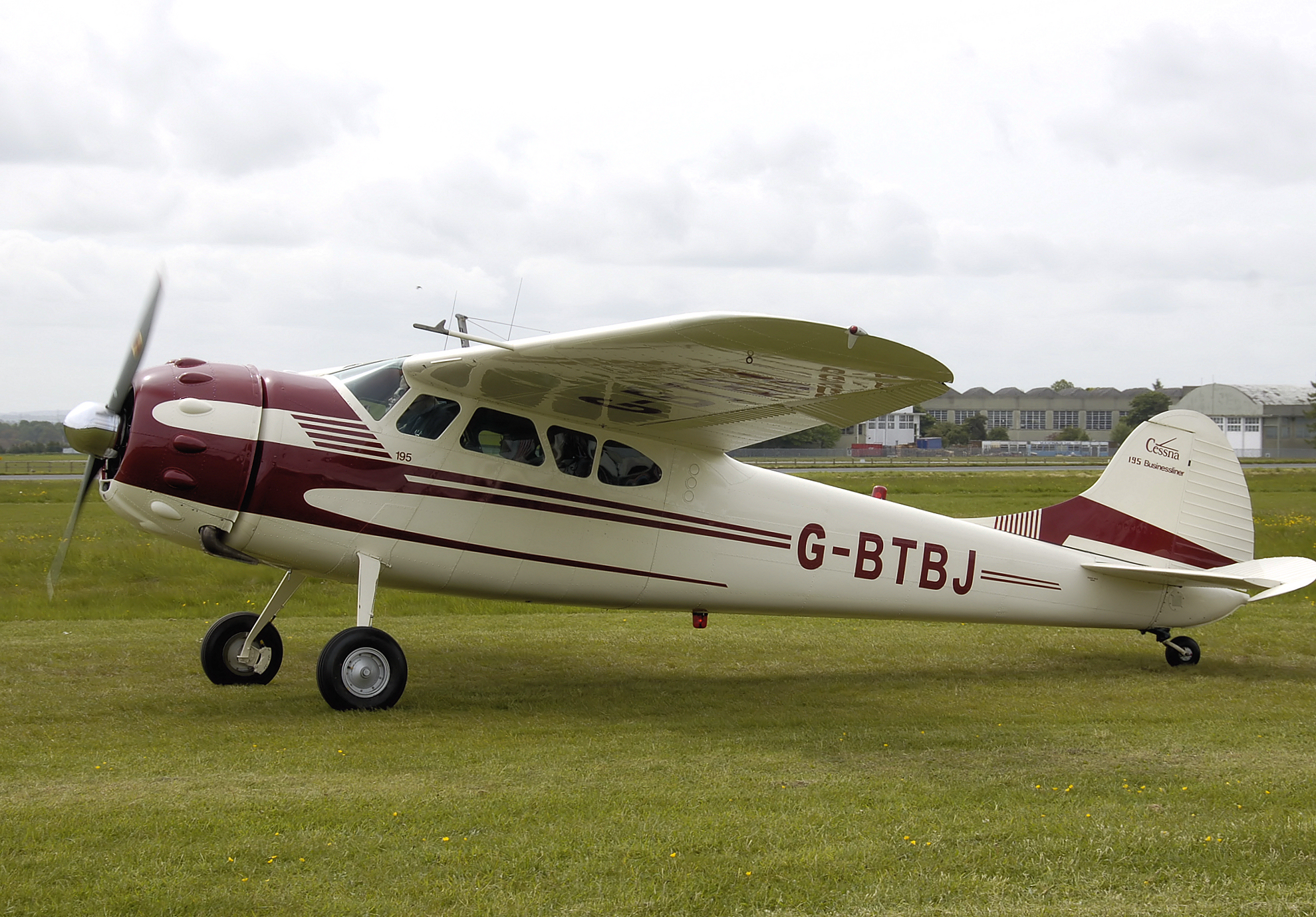 Cessna 195 Businessliner (G-BTBJ), built 1952, at a vintage aircraft rally (the Great Vintage Flying Weekend), Kemble Airport, Gloucestershire, England.